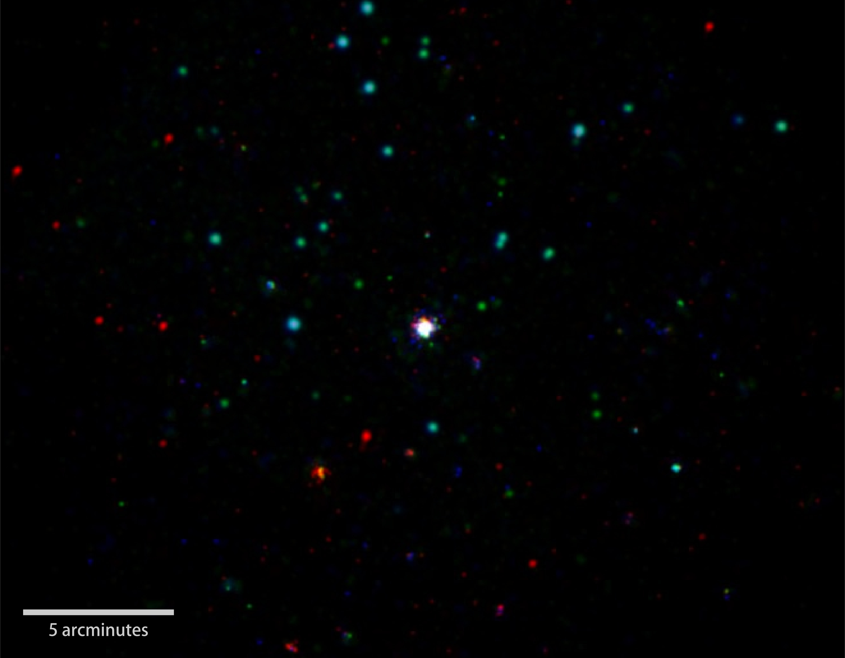 GRB 151027B, Swift's 1,000th burst (center), is shown in this composite X-ray, ultraviolet and optical image. X-rays were captured by Swift's X-Ray Telescope, which began observing the field 3.4 minutes after the Burst Alert Telescope detected the blast. Swift's Ultraviolet/Optical Telescope (UVOT) began observations seven seconds later and faintly detected the burst in visible light. The image includes X-rays with energies from 300 to 6,000 electron volts, primarily from the burst, and lower-energy light seen through the UVOT's visible, blue and ultraviolet filters (shown, respectively, in red, green and blue). The image has a cumulative exposure of 10.4 hours.